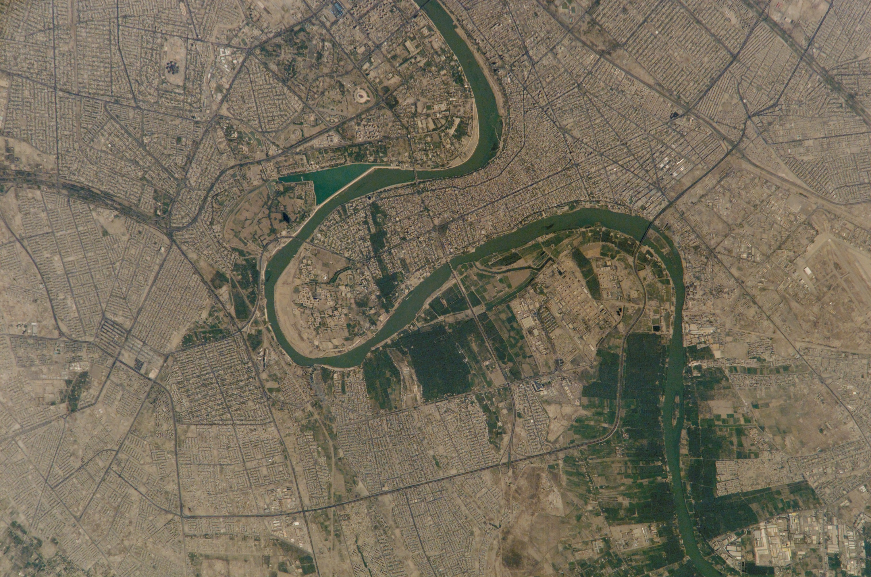 Astronaut Photo of Baghdad, Iraq taken from the International Space Station (ISS) during Expedition 5 on August 24, 2002.